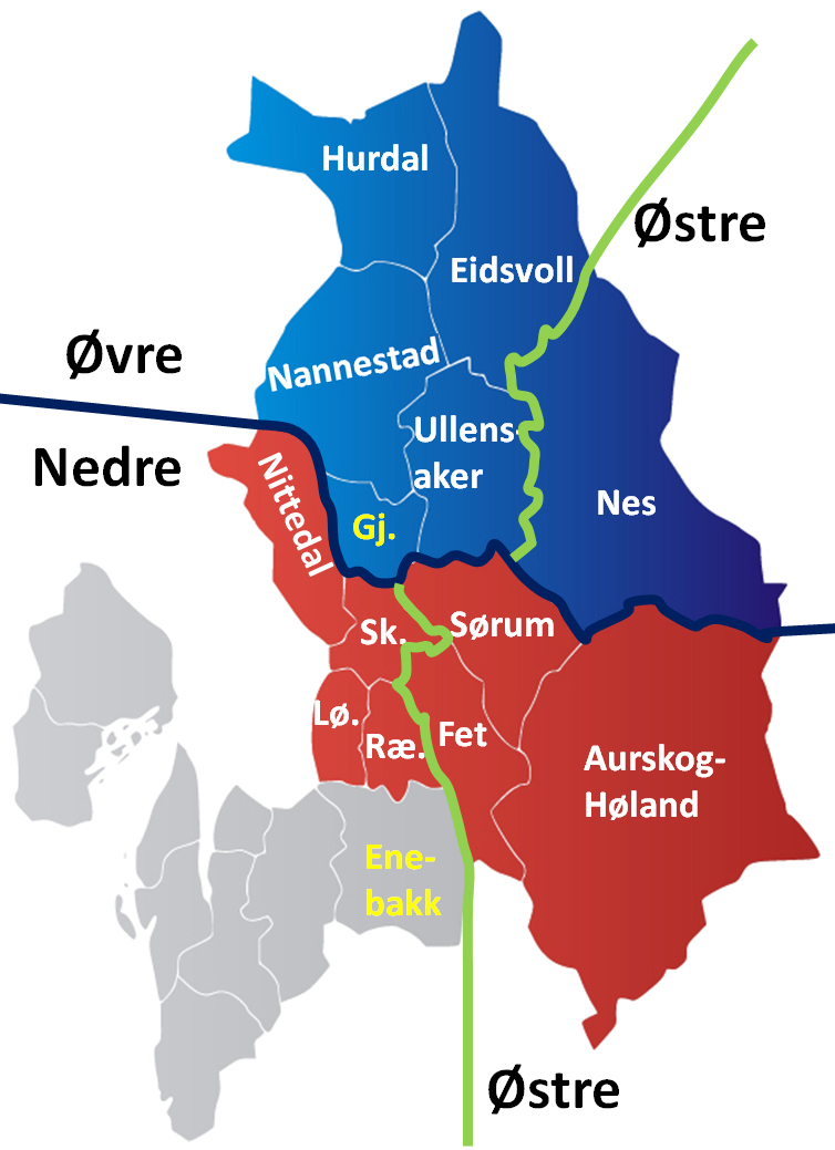 Map of Romerike Nedre Romerike Øvre Romerike